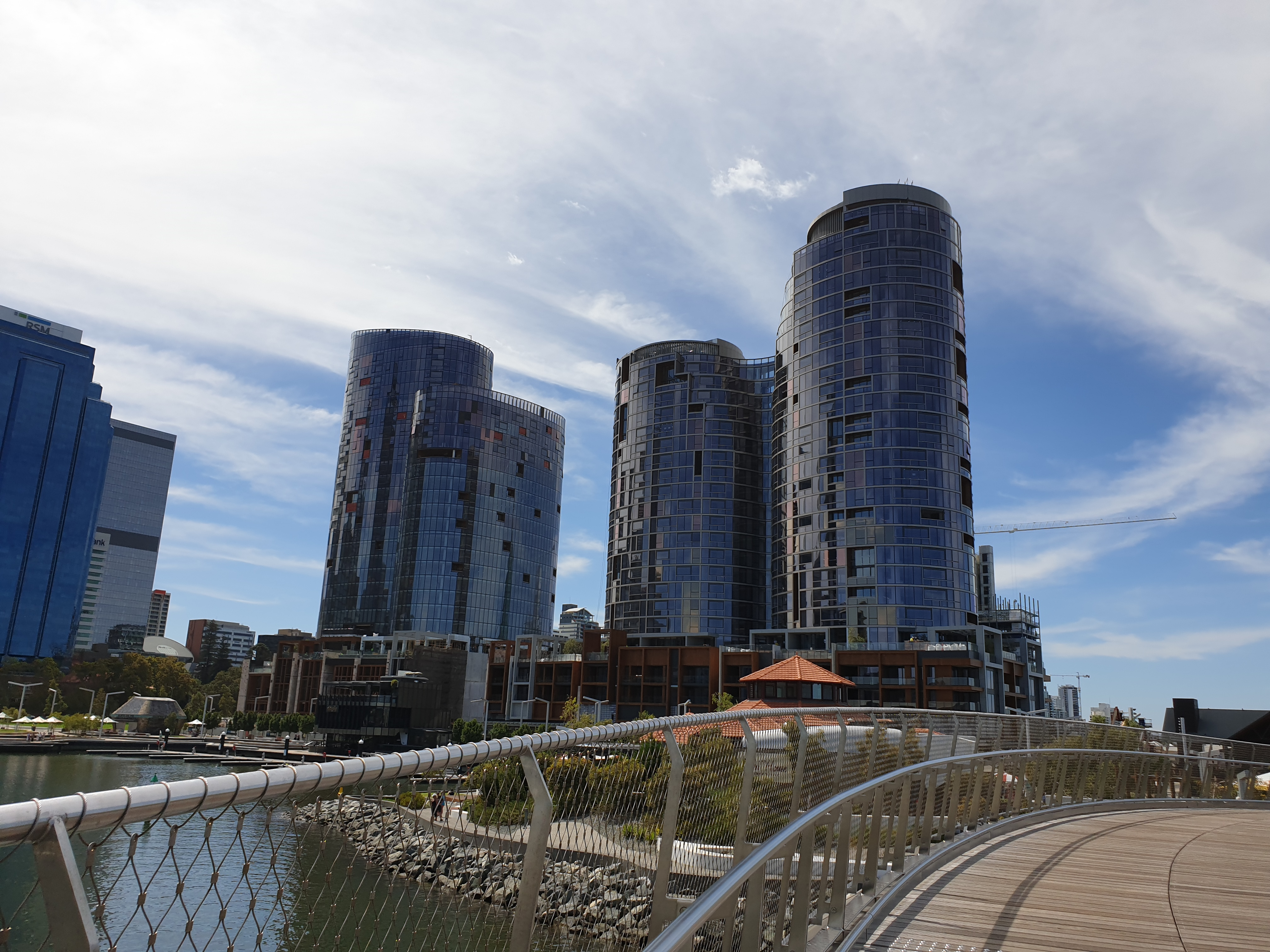 taken at Elizabeth Quay